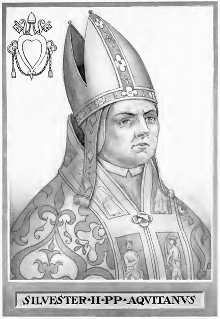 This illustration is from The Lives and Times of the Popes by Chevalier Artaud de Montor, New York: The Catholic Publication Society of America, 1911. It was originally published in 1842.